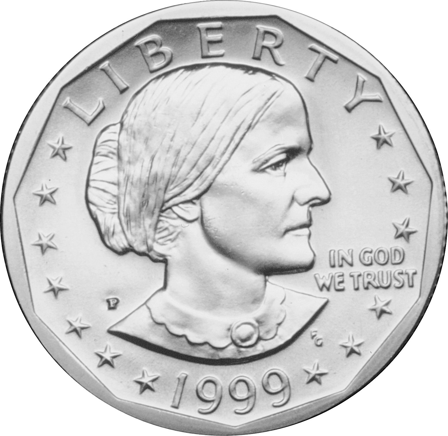 Obverse of a 1999 Susan B. Anthony dollar. Removed background, cropped, and converted to PNG with Macromedia Fireworks.